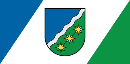 unofficial flag of Ķekava Municipality, Latvia.